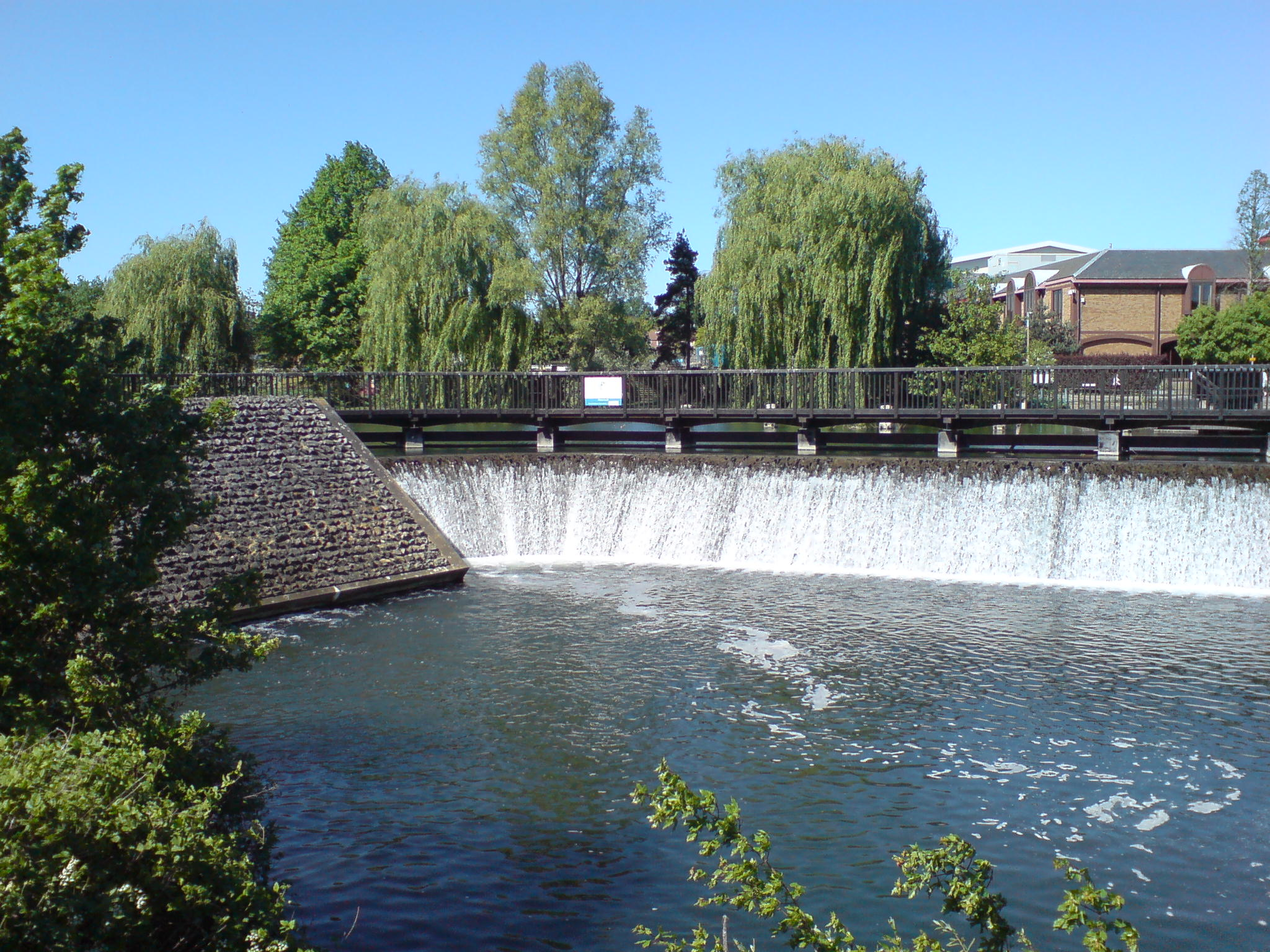 Author: Jamsta